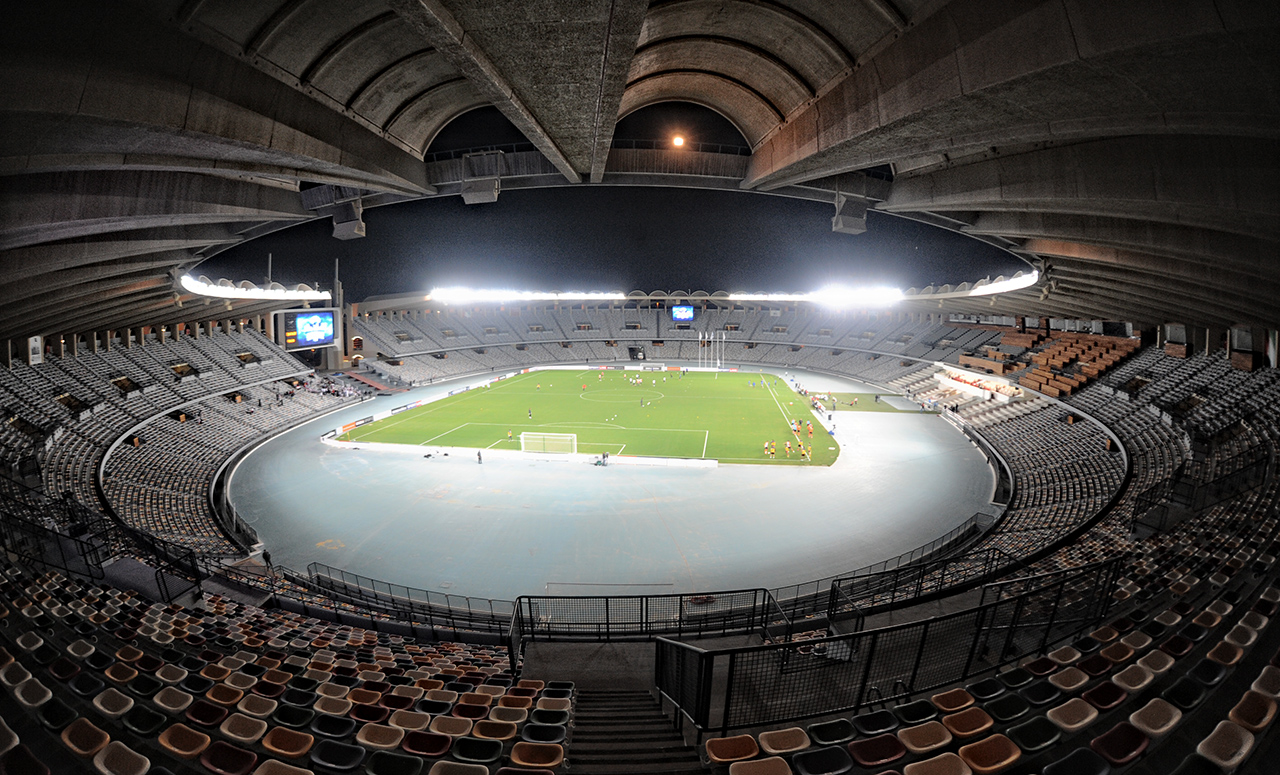 Zayed Sports City Stadium in Abu Dhabi, United Arab Emirates